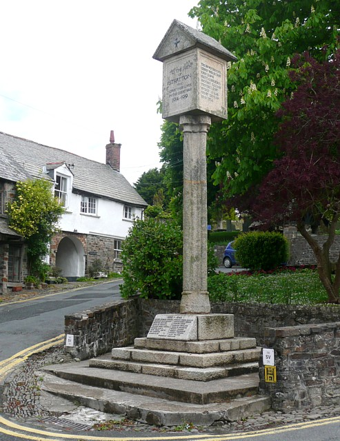 War memorial, Stratton Basically a cross, but with a box-shape at the top with a roof.